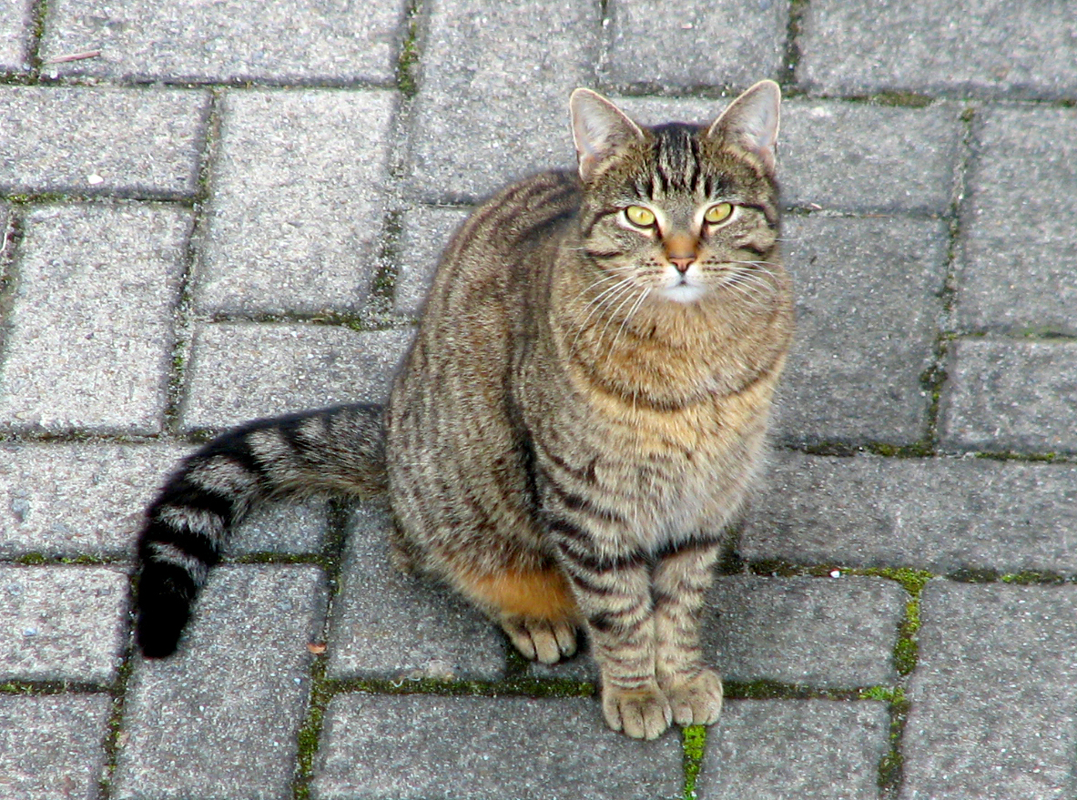 domestic cat, author: Tilo Hauke, Germany